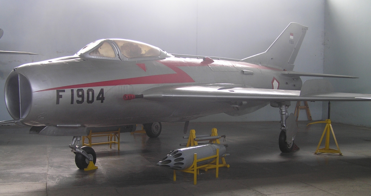 Indonesian Air Force MiG-19 in the Air Force Museum, Yogyakarta